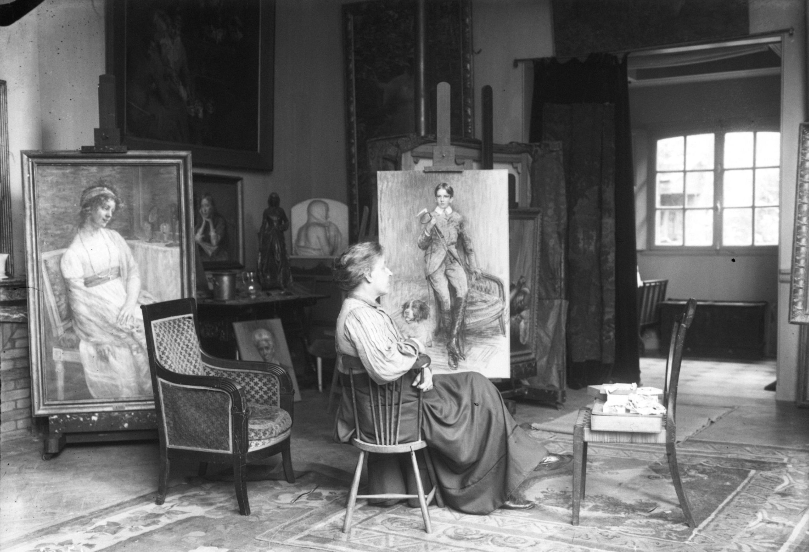 Louise Catherine Breslau (1857-1926) in her studio in 1912.